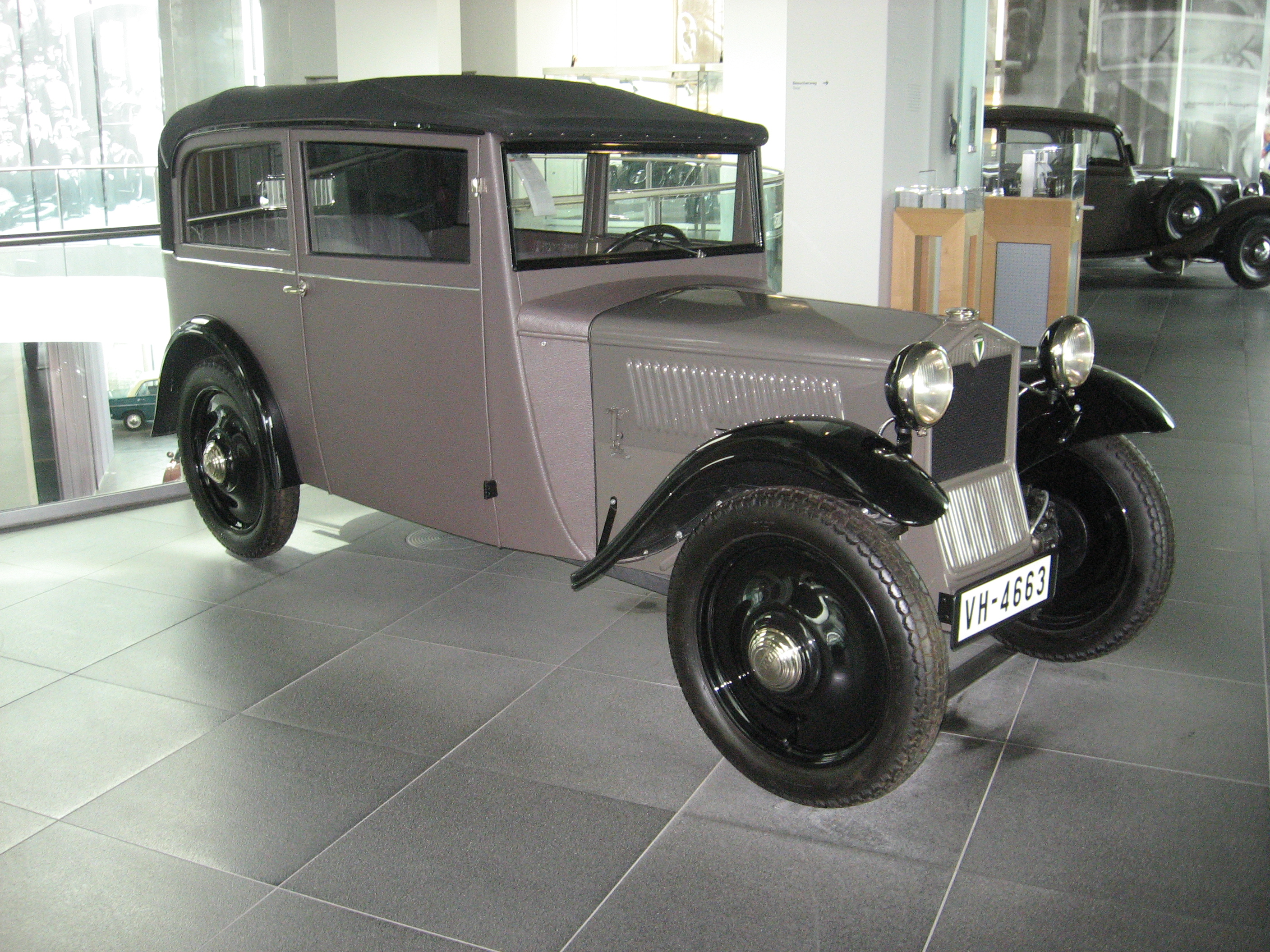 Subject: DKW F1 Author: Luc106 Date:June 13th, 2011 Place/Country: Audi Museum, Ingolstadt (Deutschland)